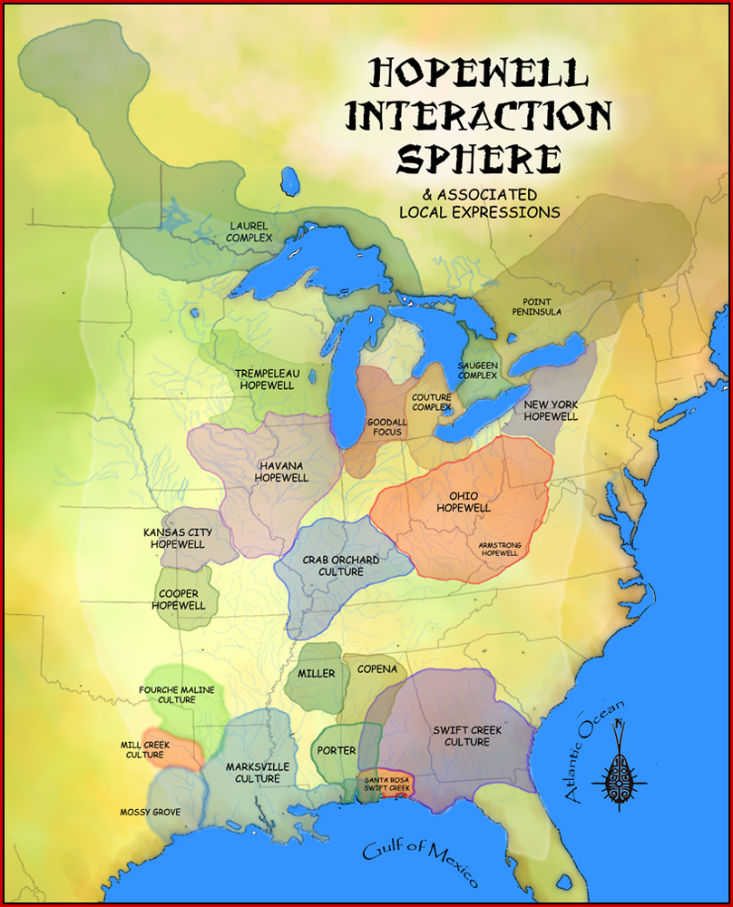 A map showing the Hopewell Interaction Sphere and various local expressions of the Hopewell cultures, including the Laurel Complex, Saugeen Complex, Point Peninsula Complex, Marksville culture, Copena culture, Kansas City Hopewell, Swift Creek Culture, Goodall Focus, Crab Orchard culture and Havana Hopewell culture.